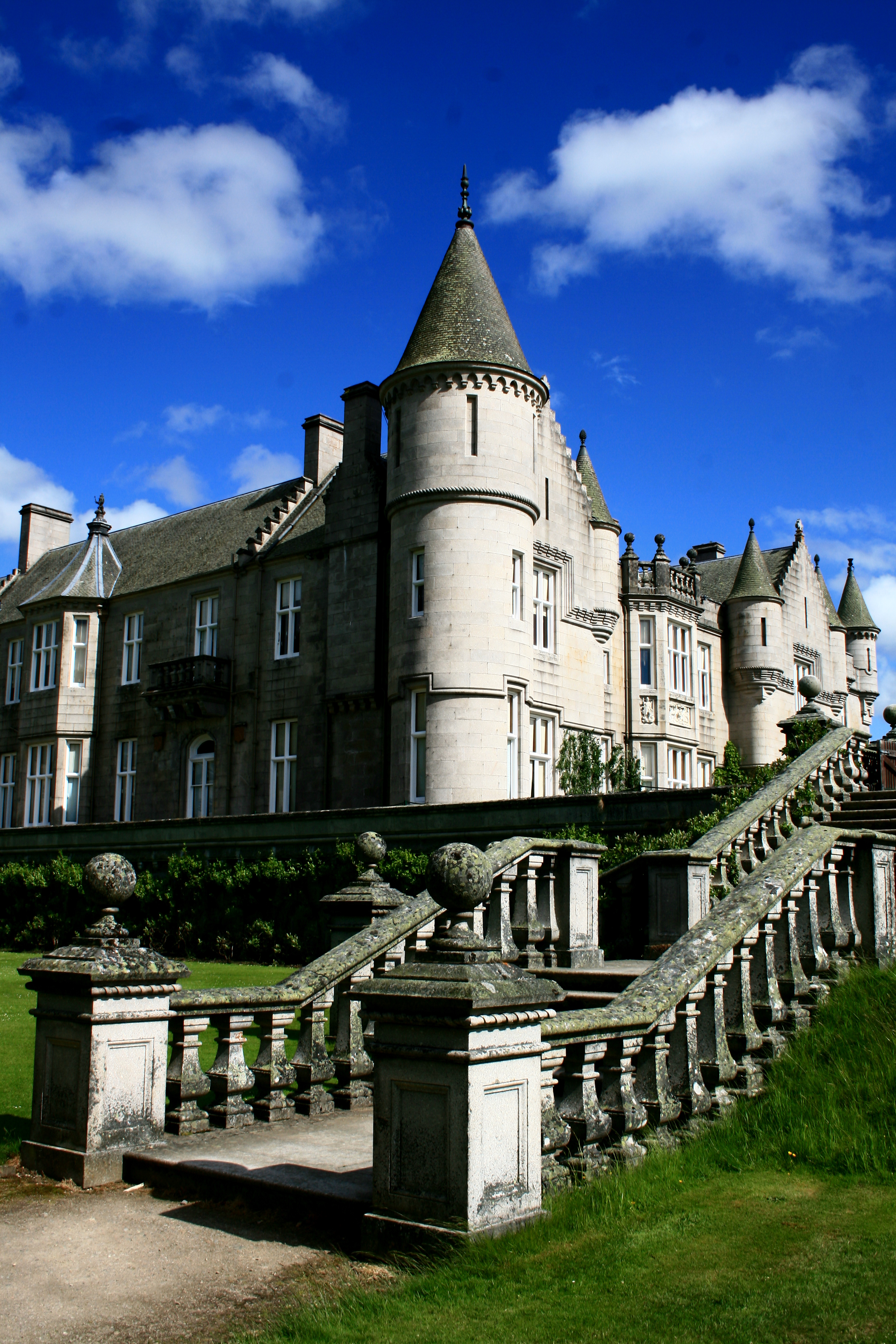 Aashish Rao Photography